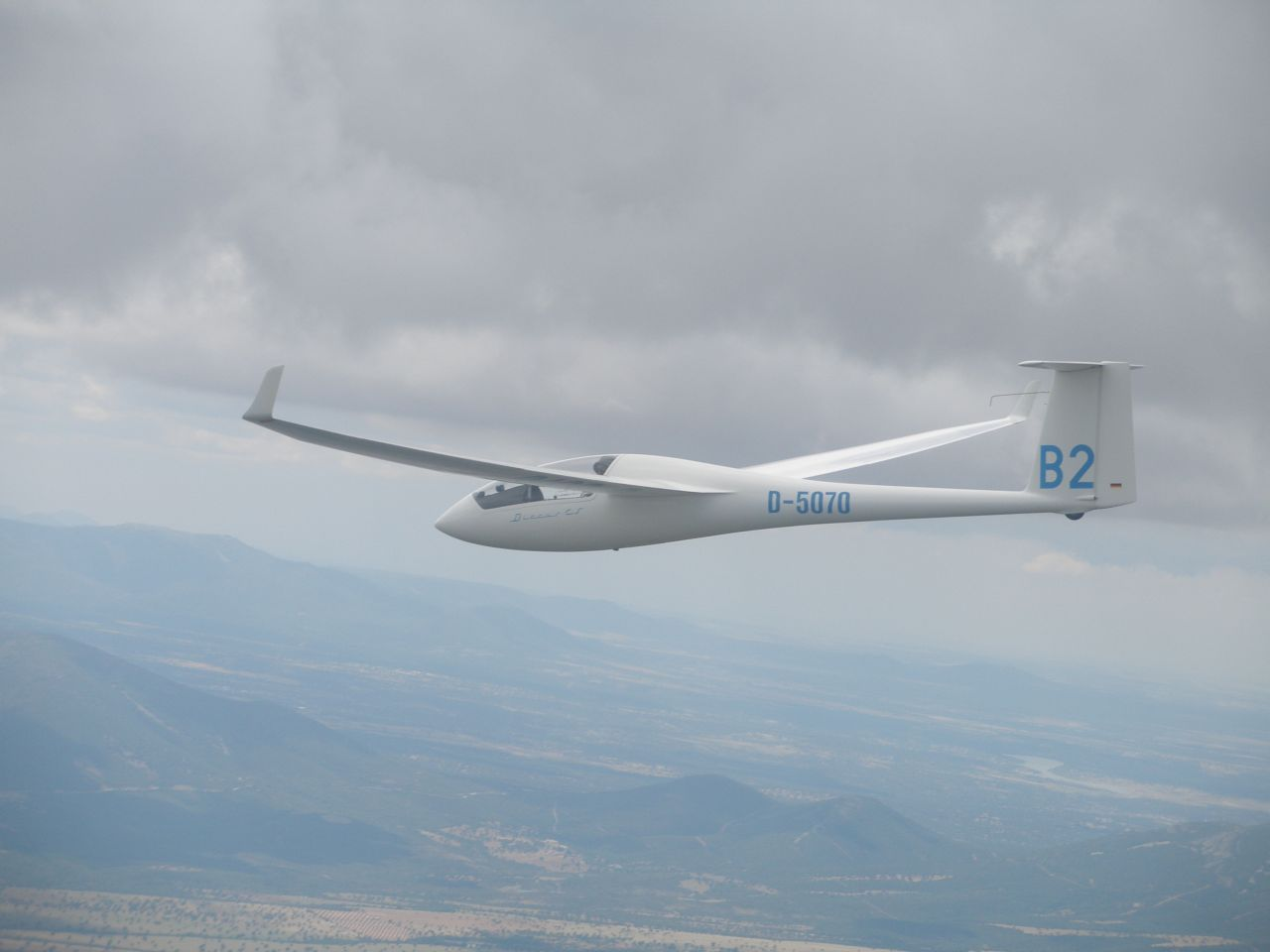 Discus CS